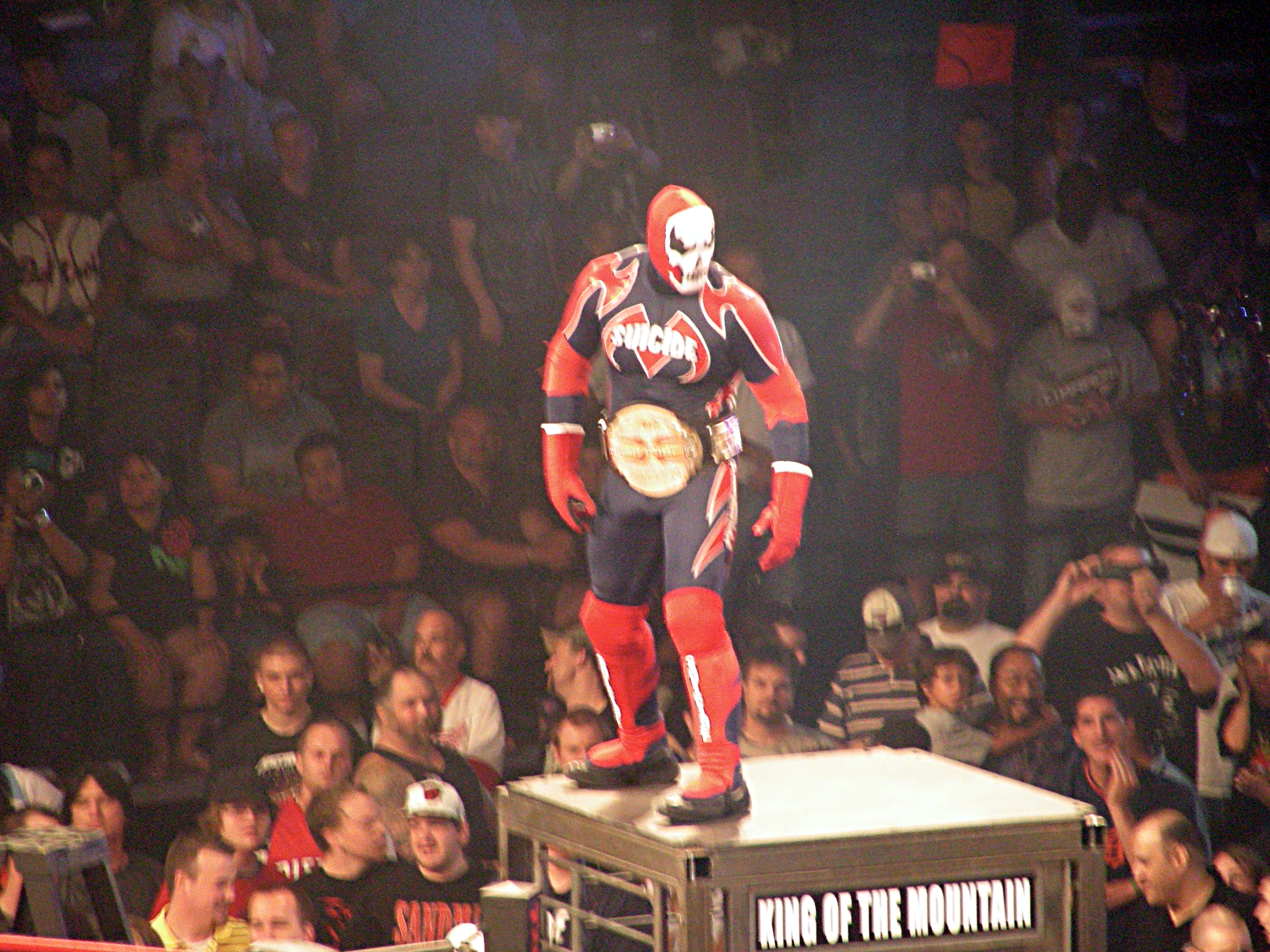 And the last man in this king of the mountain match, the X-division champion, tha masked man of mystery, SUICIDE!